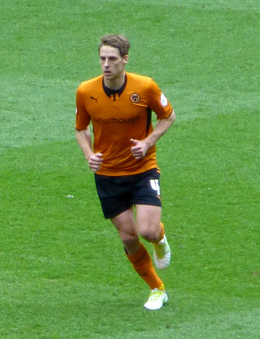 Dave Edwards - Wolverhampton Wanderers vs Peterborough United (05/04/2014)